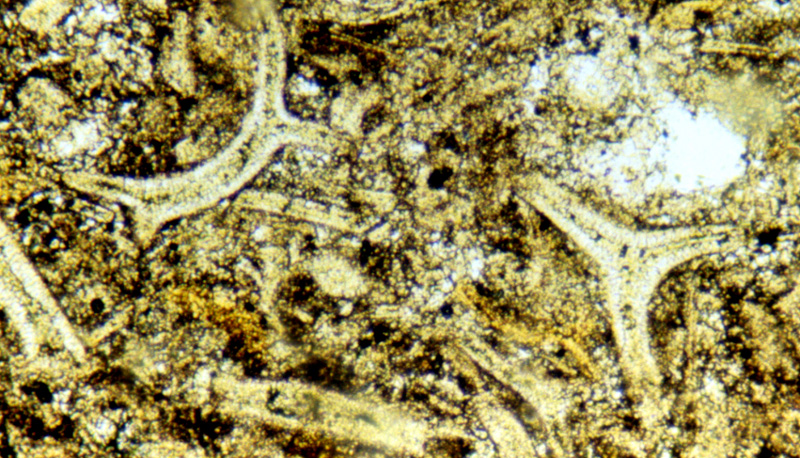 Microscope image of a thin section of a tuff illustrating shapes of shards that make up much of volcanic ash. Long dimension several mm. From New Mexico.